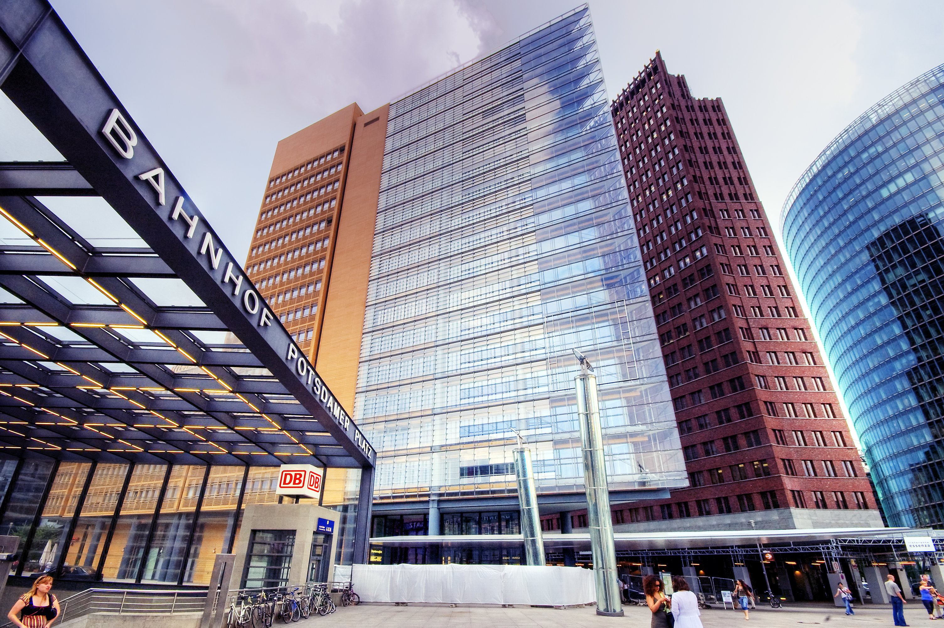 Potsdamer Platz is an important square and traffic intersection in the center of Berlin, Germany, lying about 1 kilometre south of the Brandenburg Gate and the Reichstag (German Parliament Building), and close to the south east corner of the Tiergarten park. It is named after the city of Potsdam, some 25 km to the south west, and marks the point where the old road from Potsdam passed through the city wall of Berlin at the Potsdam Gate. After developing within the space of little over a century from an intersection of rural thoroughfares into the most bustling traffic center in Europe, it was totally laid waste during World War II and then left desolate during the Cold War era when the Berlin Wall bisected its former location, but since the fall of the Wall it has risen again as a glittering new heart for the city and the most visible symbol of the new Berlin.